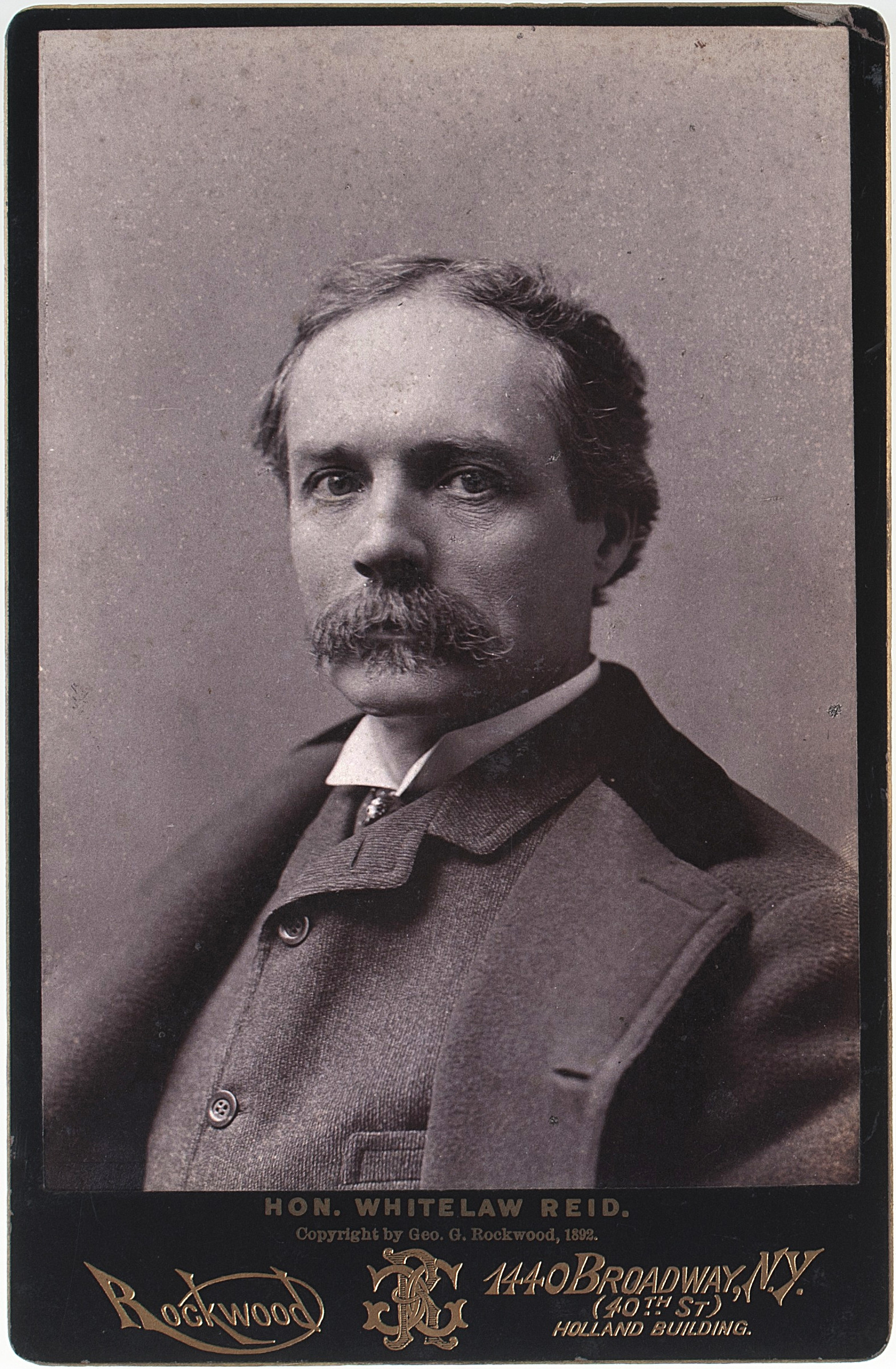 Portrait photograph of 1892 Vice Presidential Nominee Whitelaw Reid